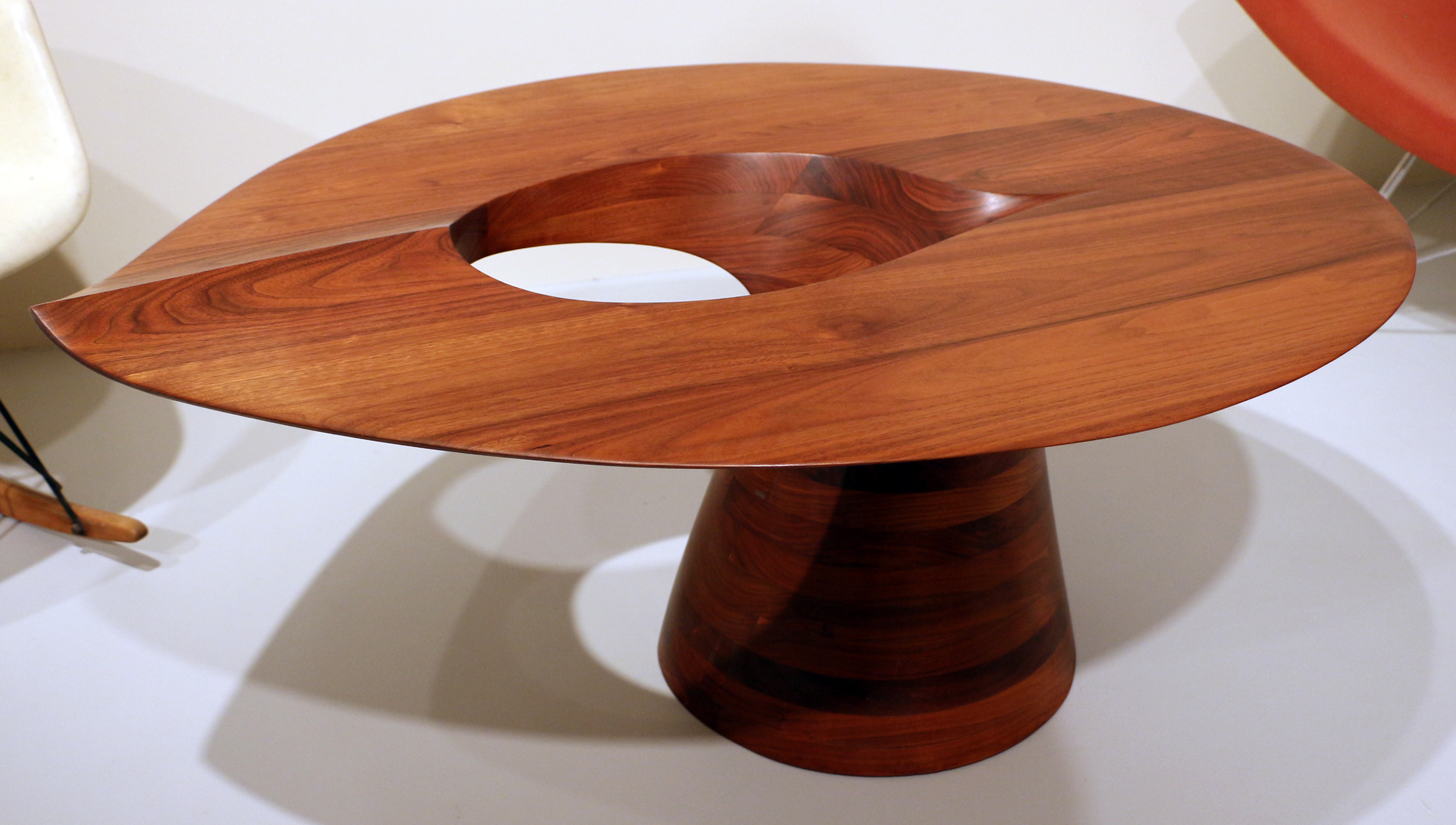 American furniture in the Art Institute of Chicago